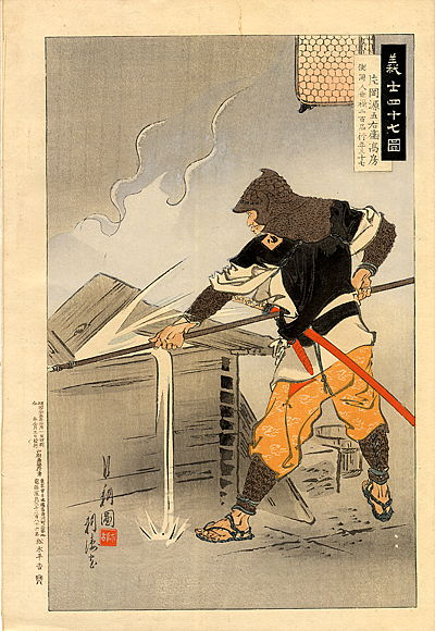 Ronin are masterless samurai. Chushingura is the true story of 47 samurai who became masterless in 1701, after their lord had been forced to commit ritual suicide (seppuku) for assaulting a court official who had insulted him. They avenged him by killing the court official after patiently planning for over a year. They were themselves then forced to commit seppuku.